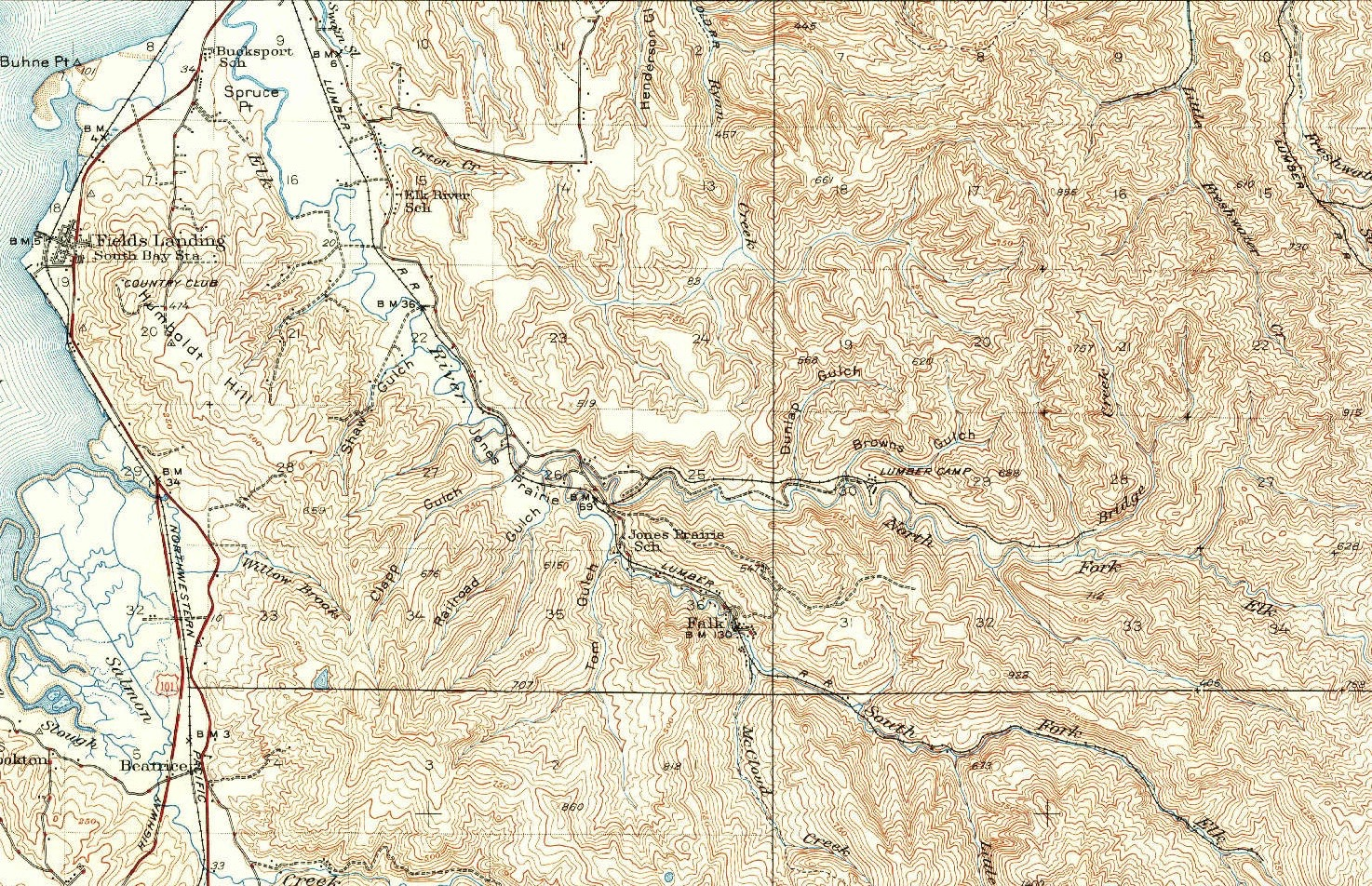 Southern portion of route in 1944